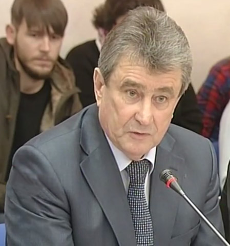 Petro Shuliak, Ukrainian general, former Chief of the General Staff of Ukraine